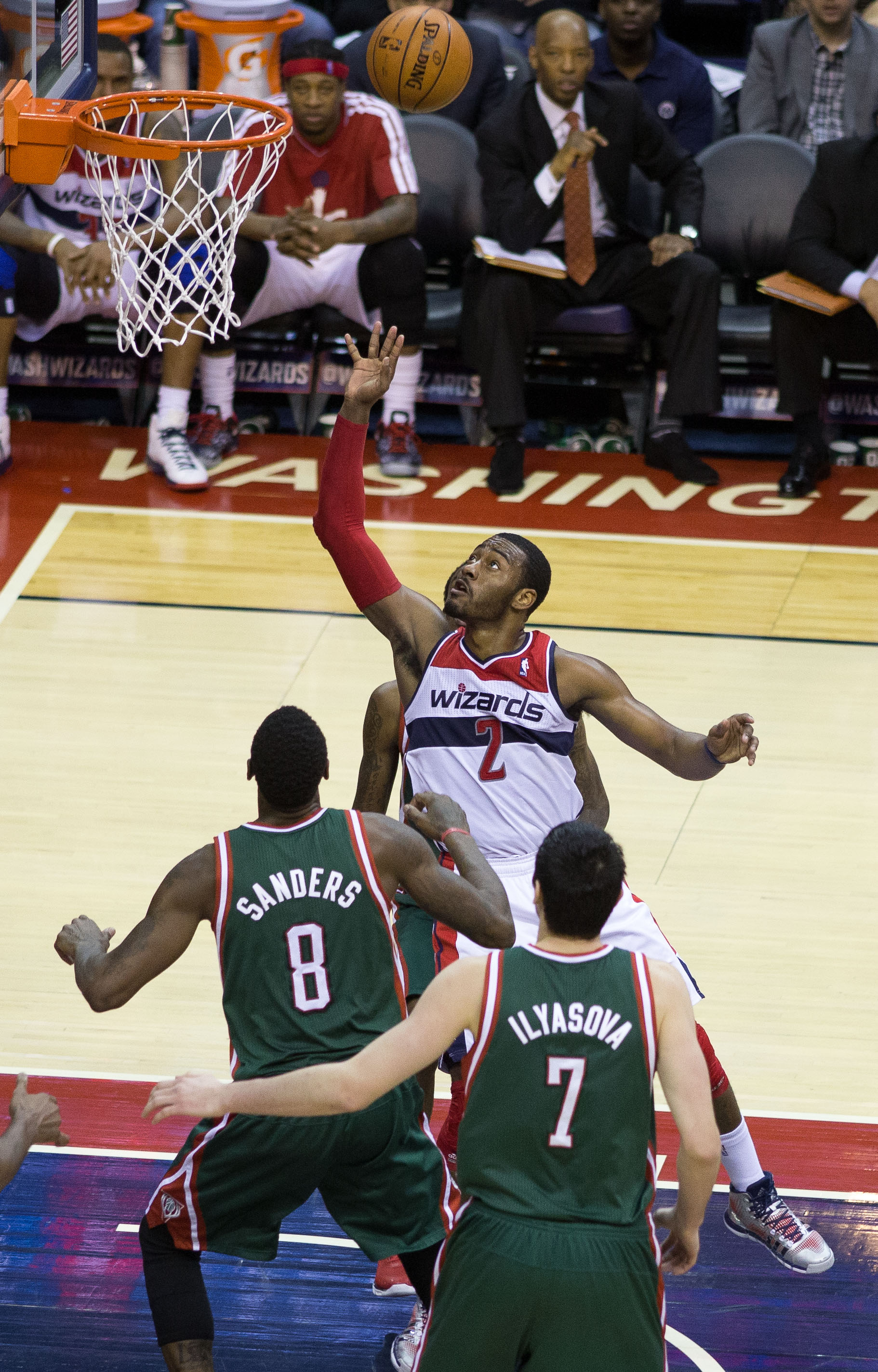 Milwaukee Bucks at Washington Wizards March 13, 2013